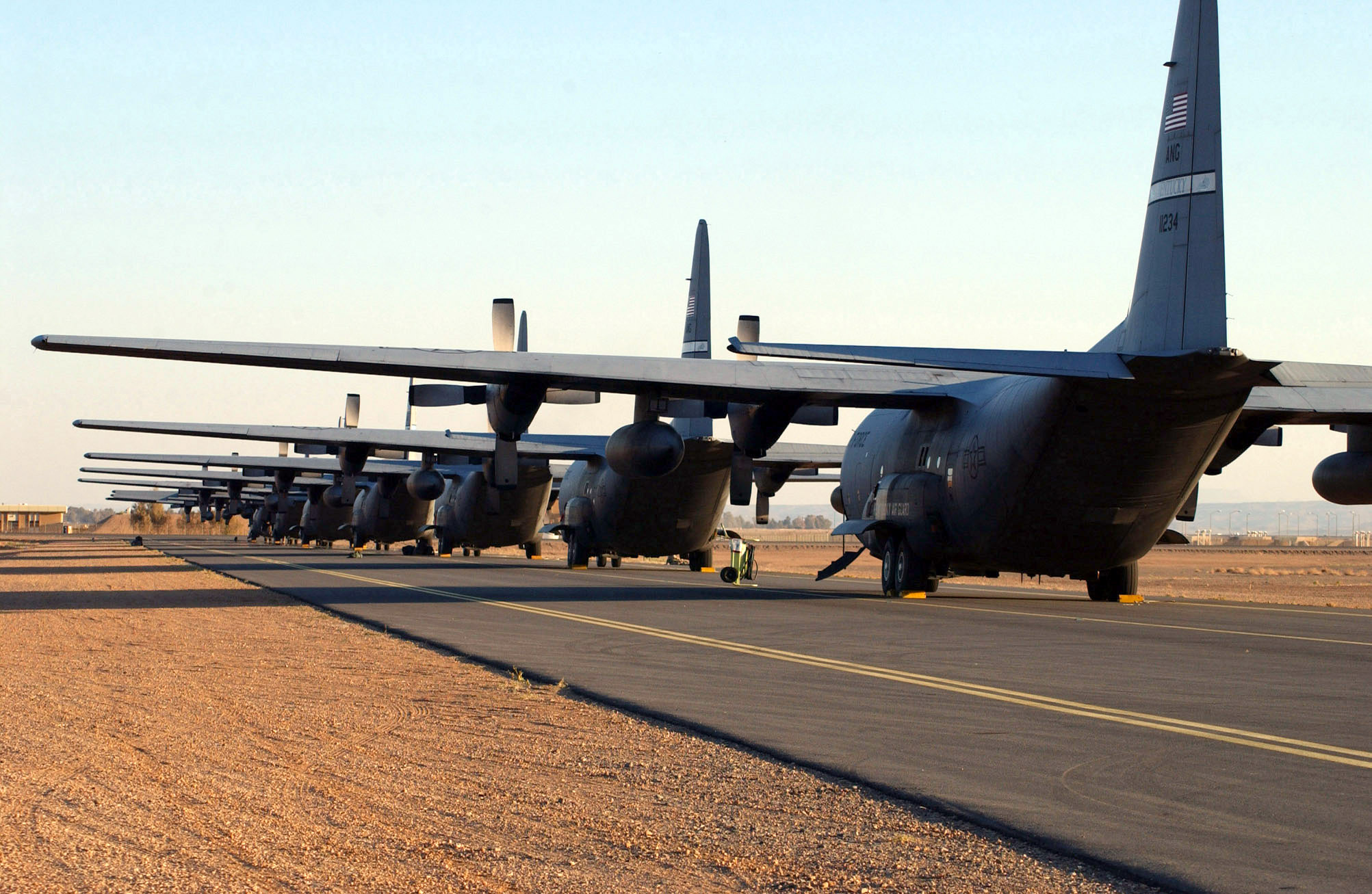 A row of C-130 Hercules from the 485th Air Expeditionary Wing are parked at a forward-deployed location in Southwest Asia. Seven C-130 units combined here to form the largest collection of the aircraft in the world, according to officials. (U.S. Air Force photo by Senior Airman Manuel Martinez)